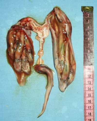 Pakistan, Karachi 7-5-14, Matured ovary, skin removed